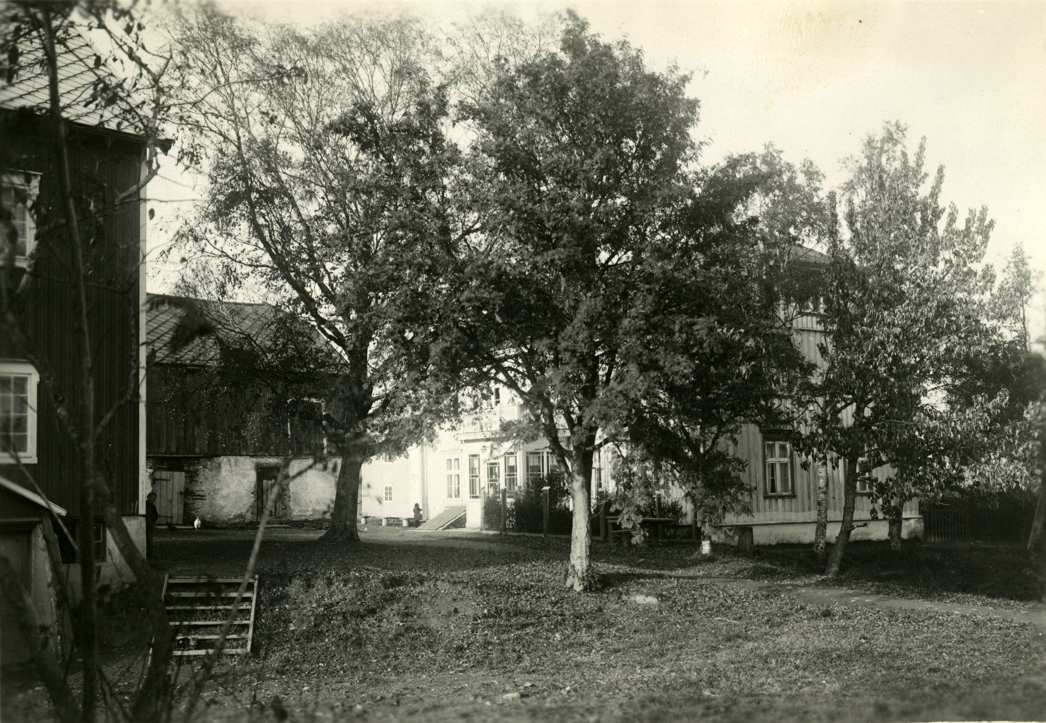 Format: Fotopositiv Dato / Date: før 1939 Fotograf / Photographer: Ukjent Sted / Place: Jakobsli (Grinnan), Strinda WikiStrinda: Jakobsli Oppdatert / Update: 11.04.2014 Eier / Owner Institution: Trondheim byarkiv, The Municipal Archives of Trondheim Arkivreferanse / Archive reference: Tor.H41.B46.F3314